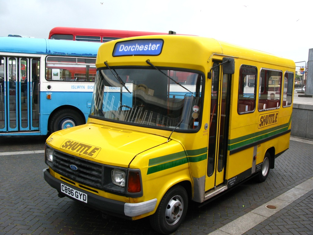 A preserved Southern National Ford Transit minibus (their number 334, registration C869 DYD) at a bus rally in Bristol.